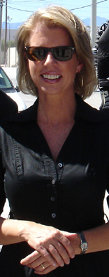 Cropped headshot of Jane Wells